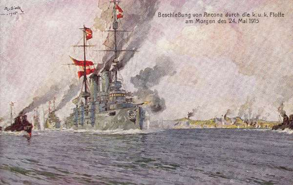 naval bombing against Ancona 24 may 1915